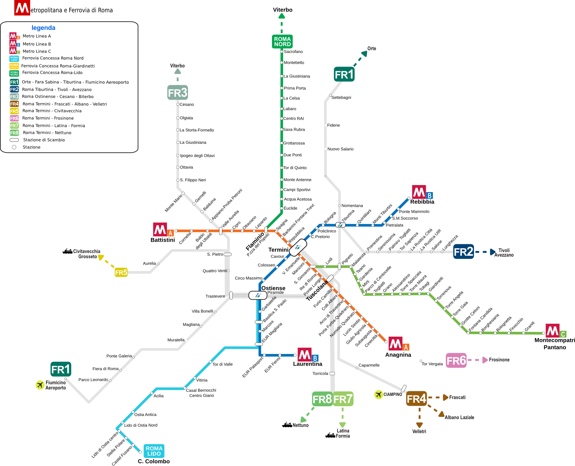 Metro Map, regional and urban railways in Rome in 2012